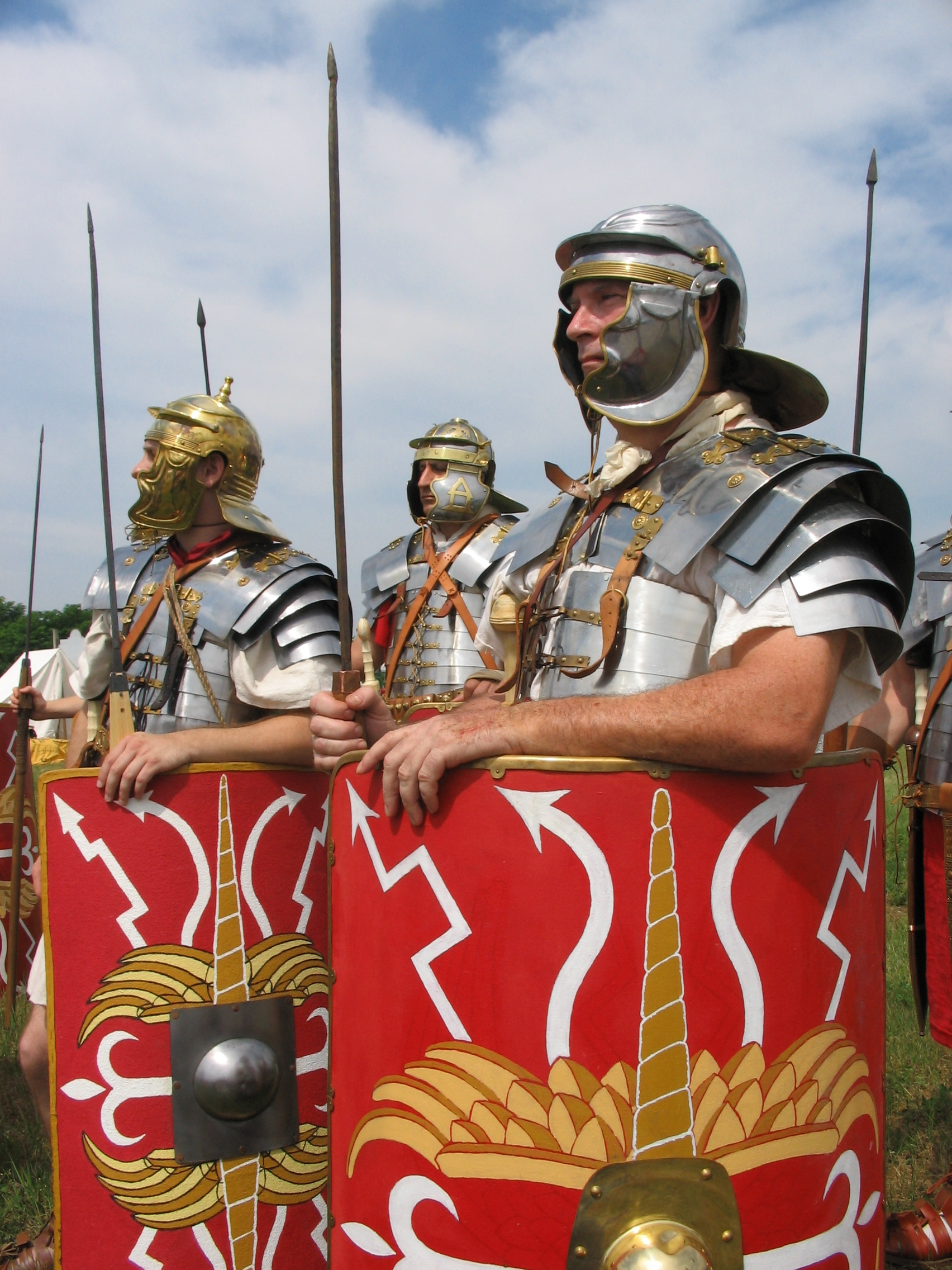 Legio III Cyrenaica of New England (United States) in a 1st century A.D. portrayal of a legion.